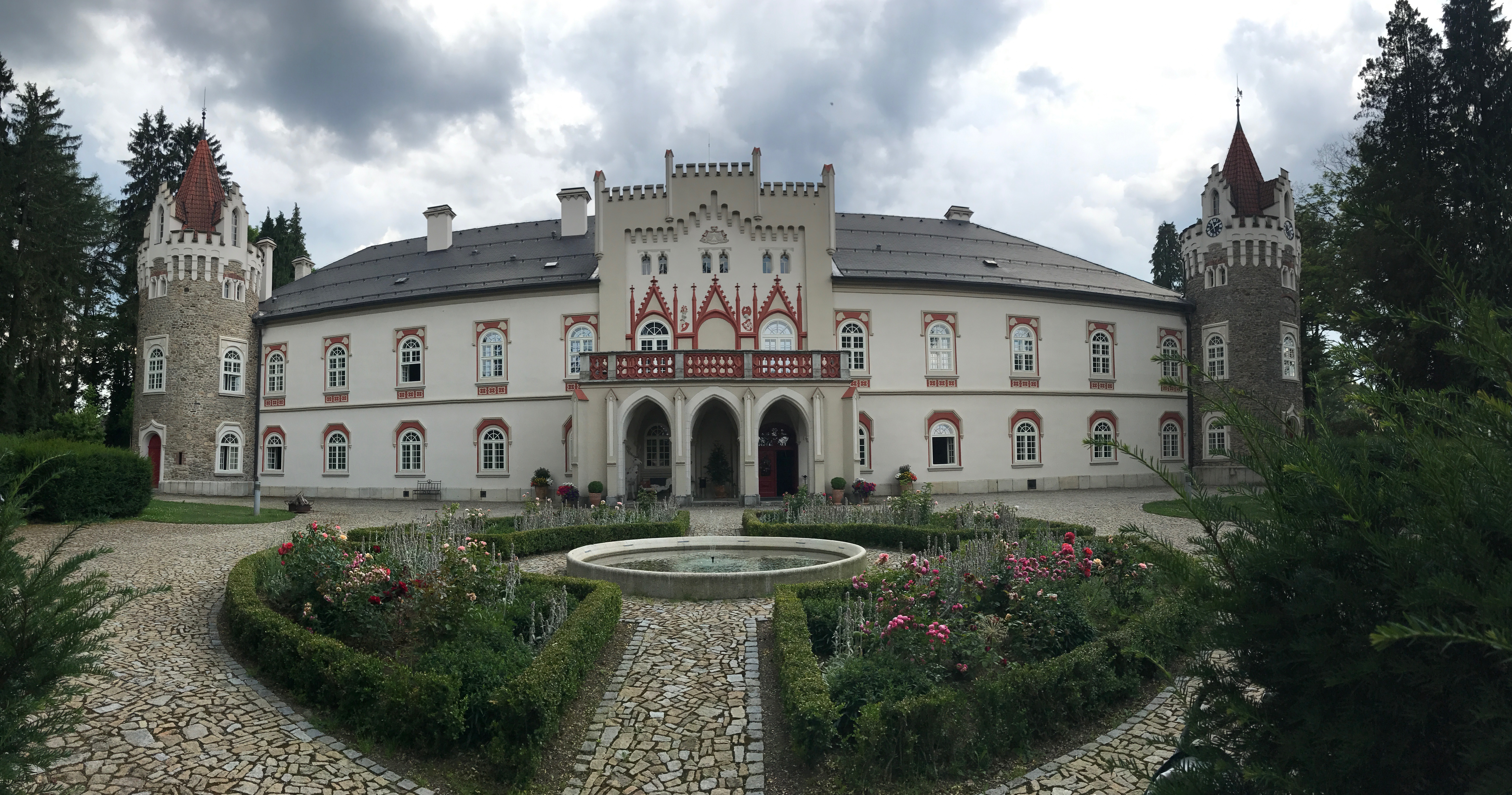 Chateau Herálec daytime view.